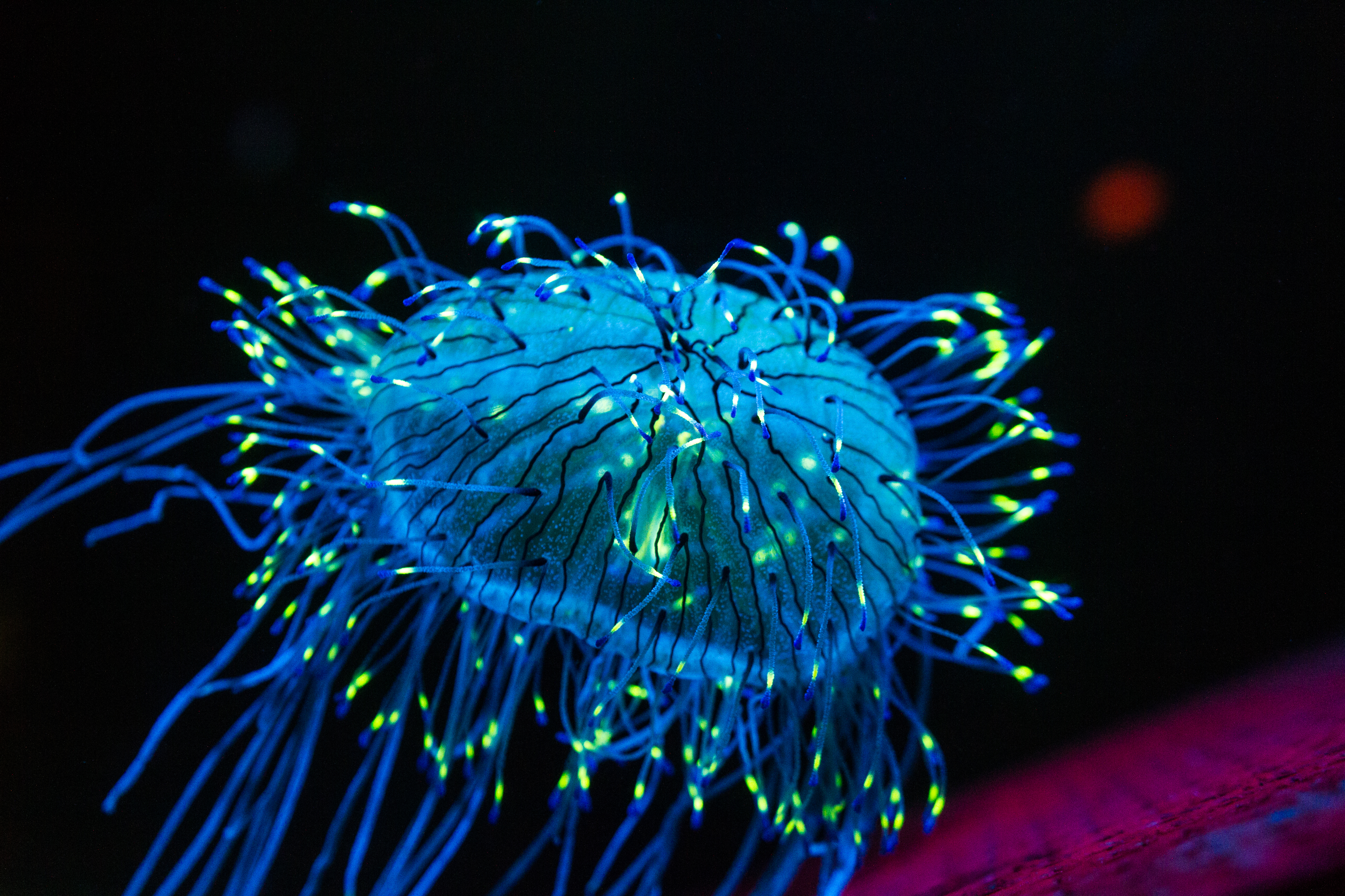 Flower hat jelly (Olindias formosa) under blacklight at Monterey Bay Aquarium.